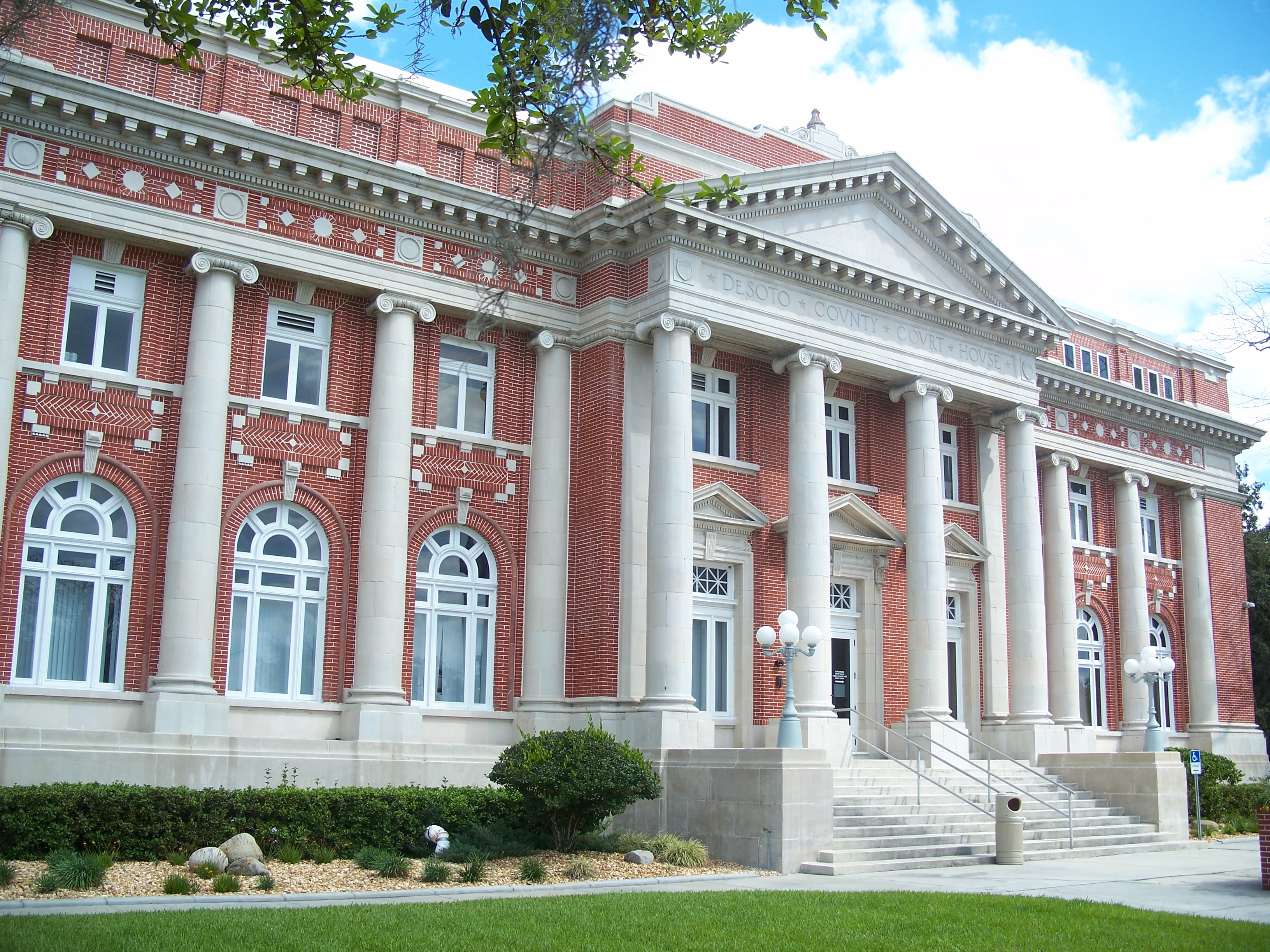 Arcadia, Florida: Arcadia Historic District: DeSoto County Courthouse